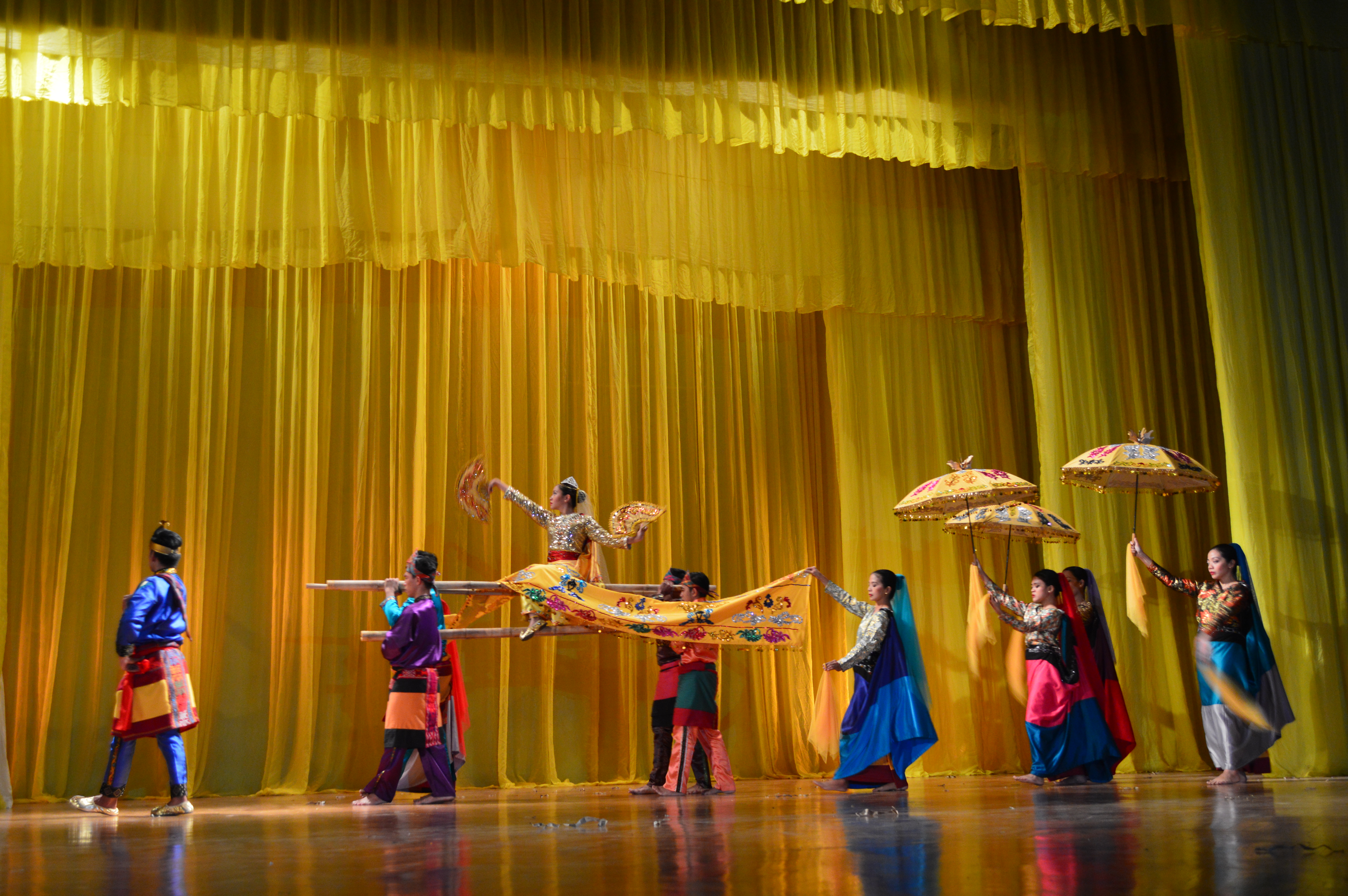 This is an image of music and dance from Egypt